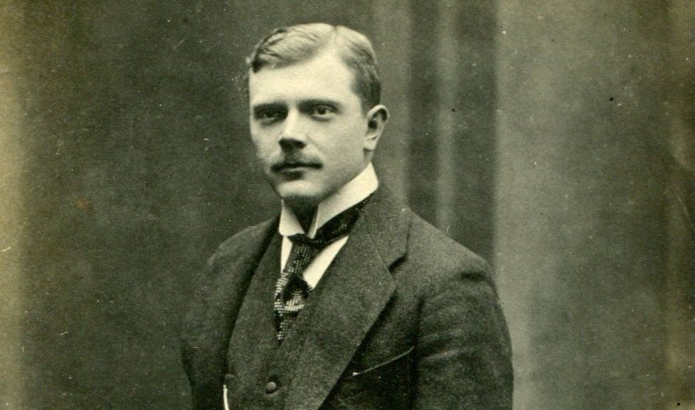 Portrait photograph of Viktor Trakl (1888 - 1956), Czech physicist